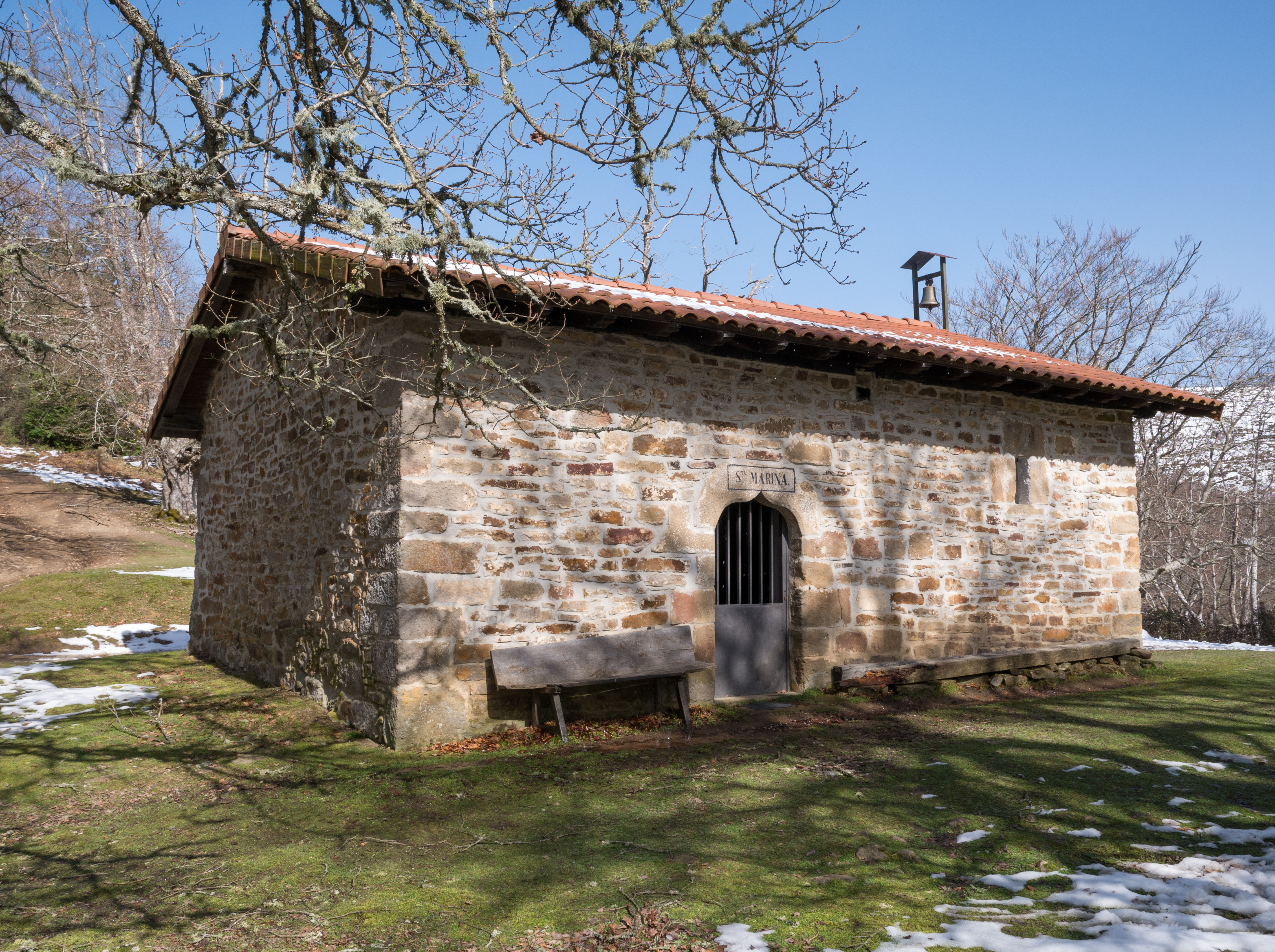 Mountain chapel in the Elgea mountain range. Barrundia, Álava, Basque Country, Spain